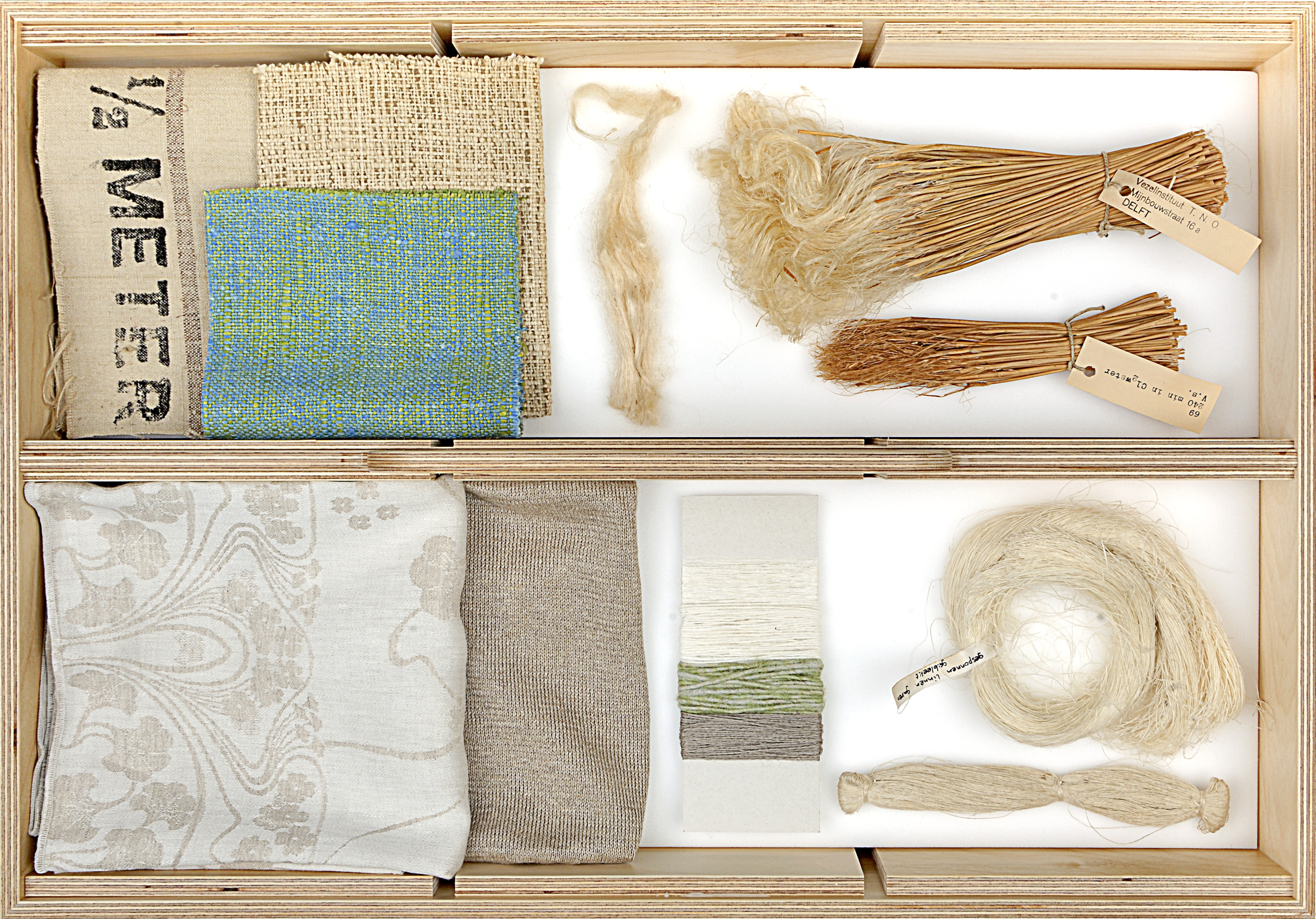 Flax / linen: flax stem, fiber, yarn and woven and knitted linen textiles. Tray and samples of the textile cabinet in the Textielmuseum in Tilburg. Cabinet interior made by Simone de Waart, Material Sense.